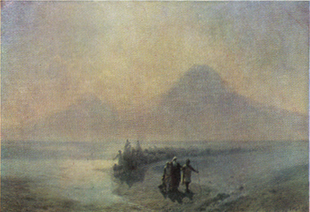 "Noah descending from Ararat." by Ivan Aivazovsky (1889).